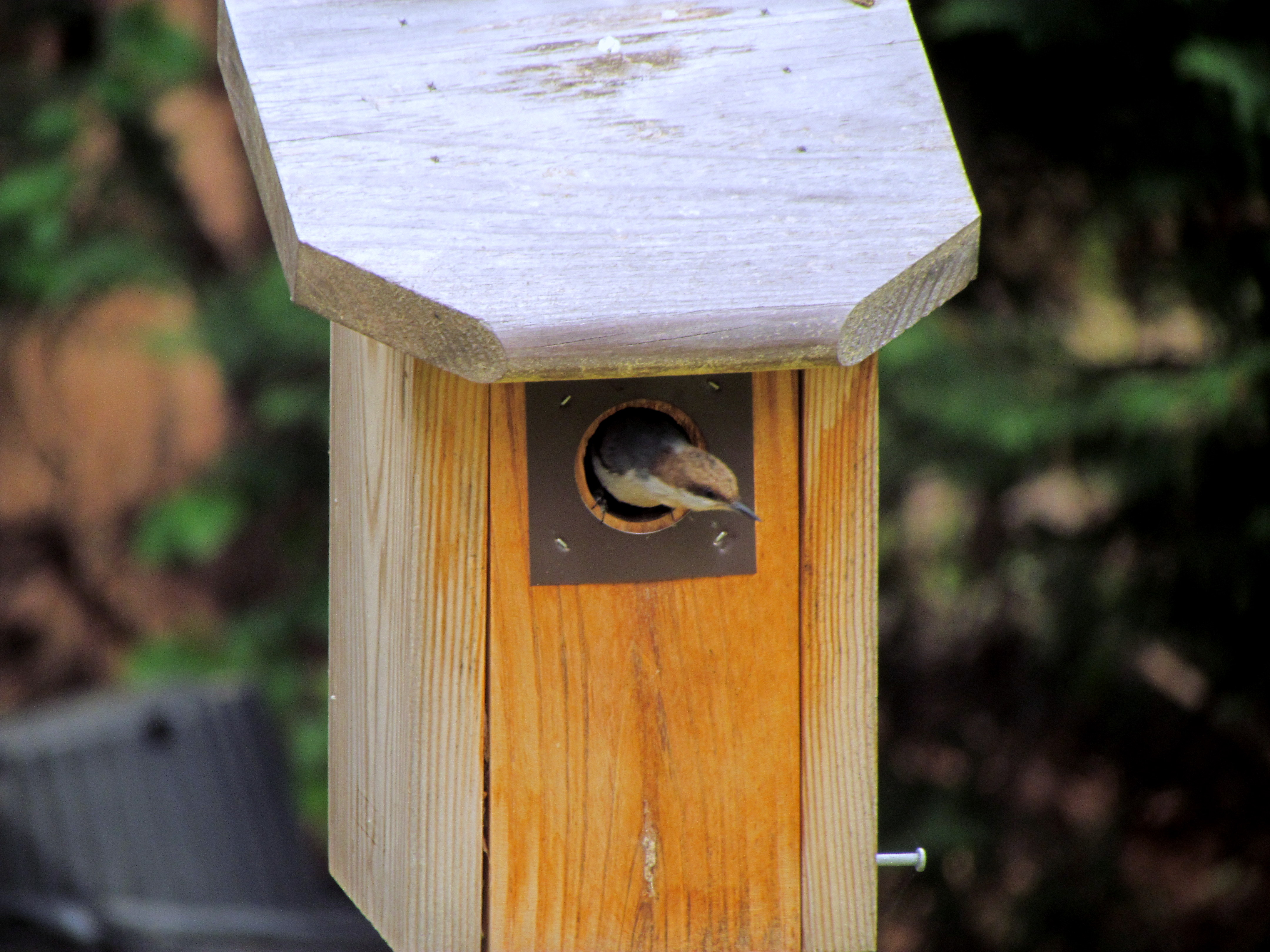 Brown-headed Nuthatch